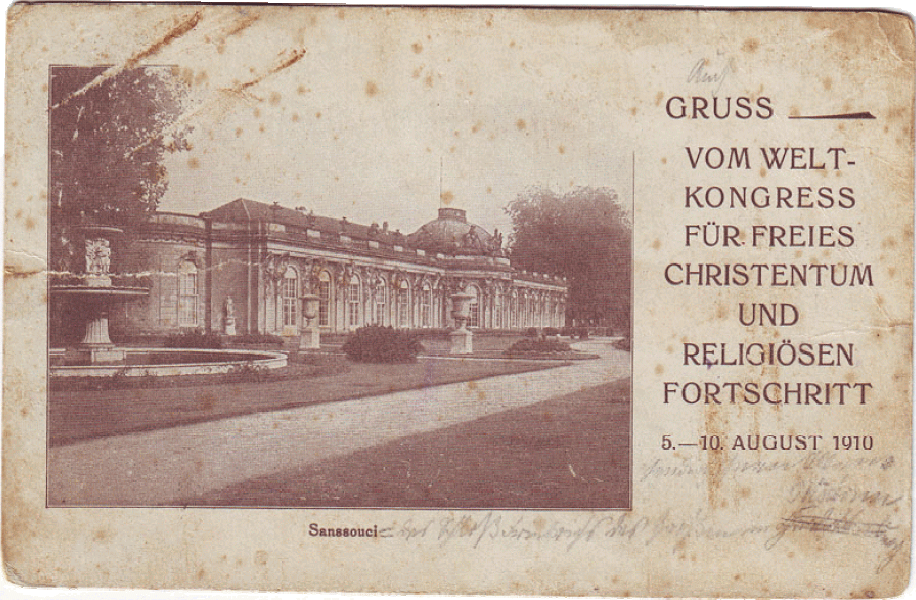 Invitation postcard to the 5th World Christian Congress (1910)